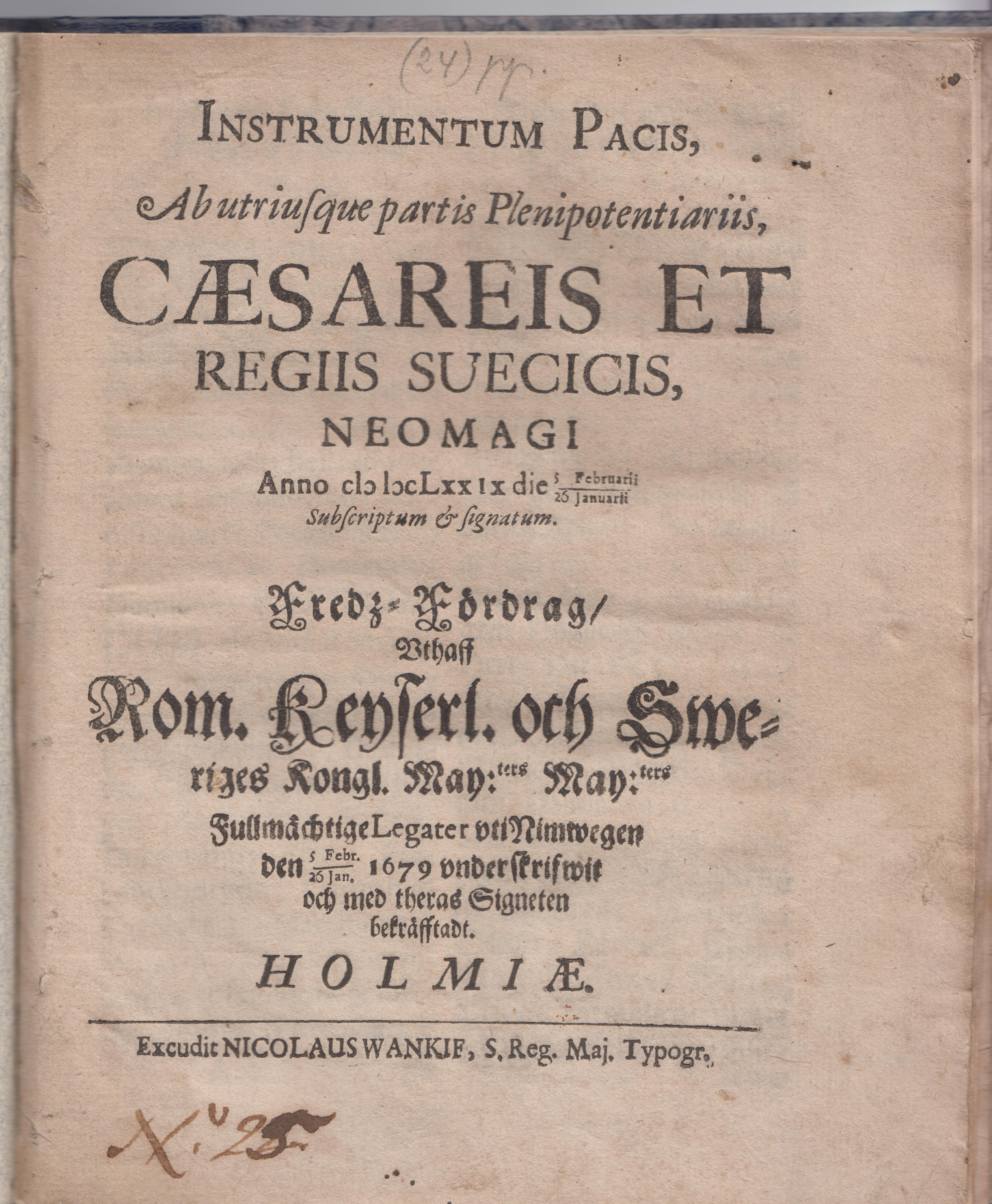 Original print, scanned 2016-02-02 with a Canon LiDE 200 scanner at 600 dpi. Text is in Latin and Swedish.